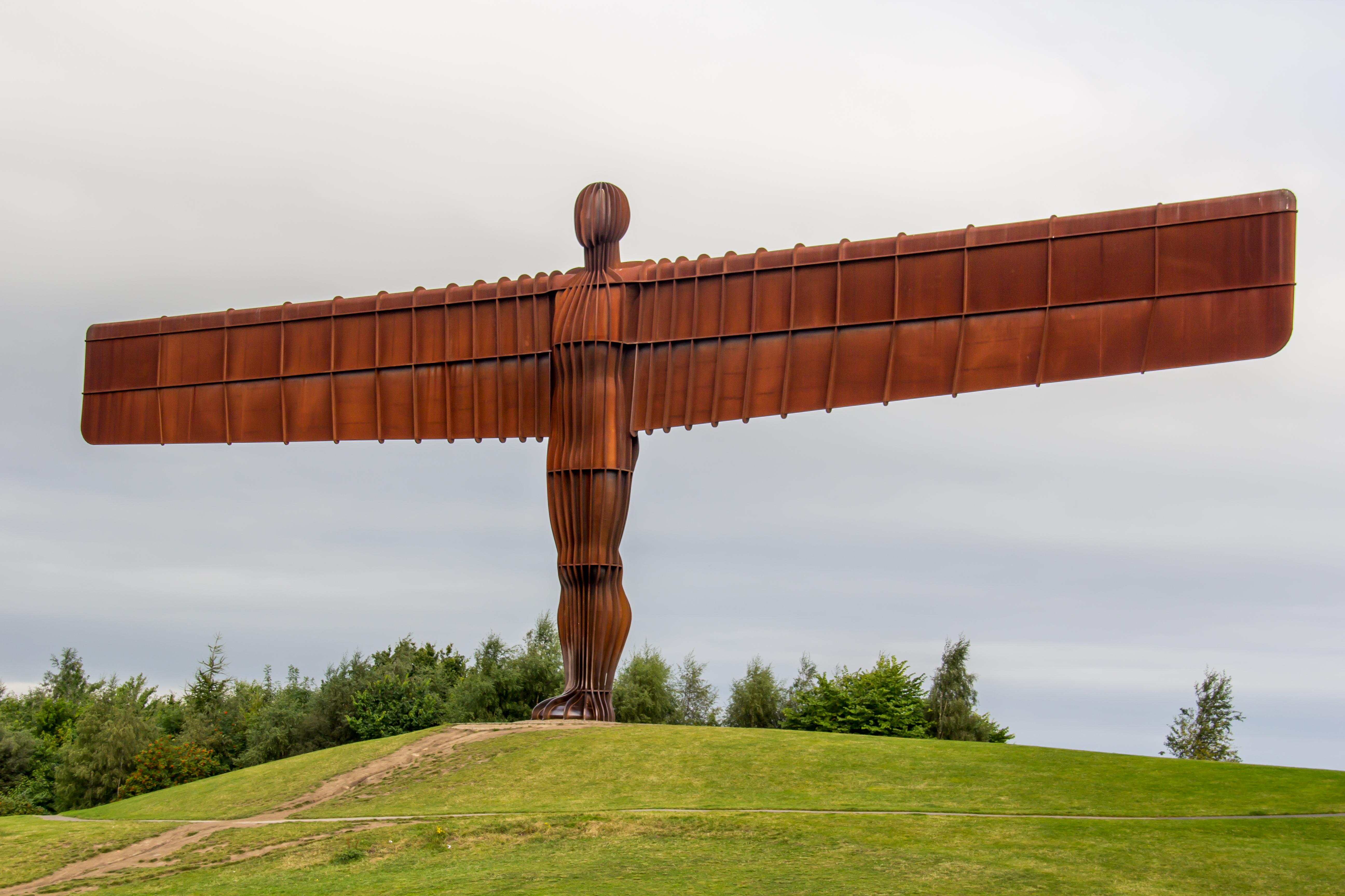 The Angel of the North, Gateshead, United Kingdom.